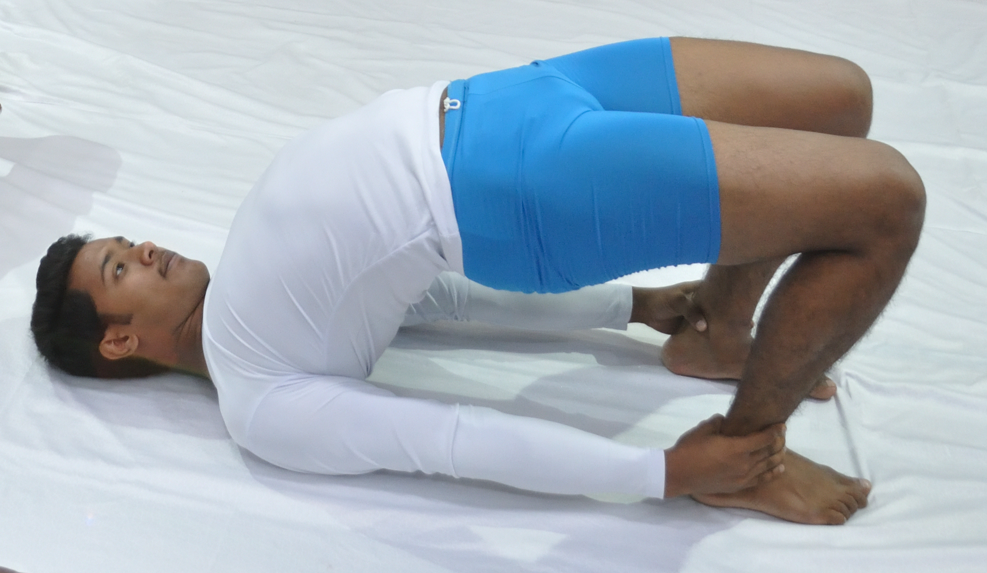 Bridge pose, sometimes called Setubandhasana, is a variant of Setu Bandha Sarvāṅgāsana, shoulderstand bridge, with the hands catching the ankles rather than supporting the back.